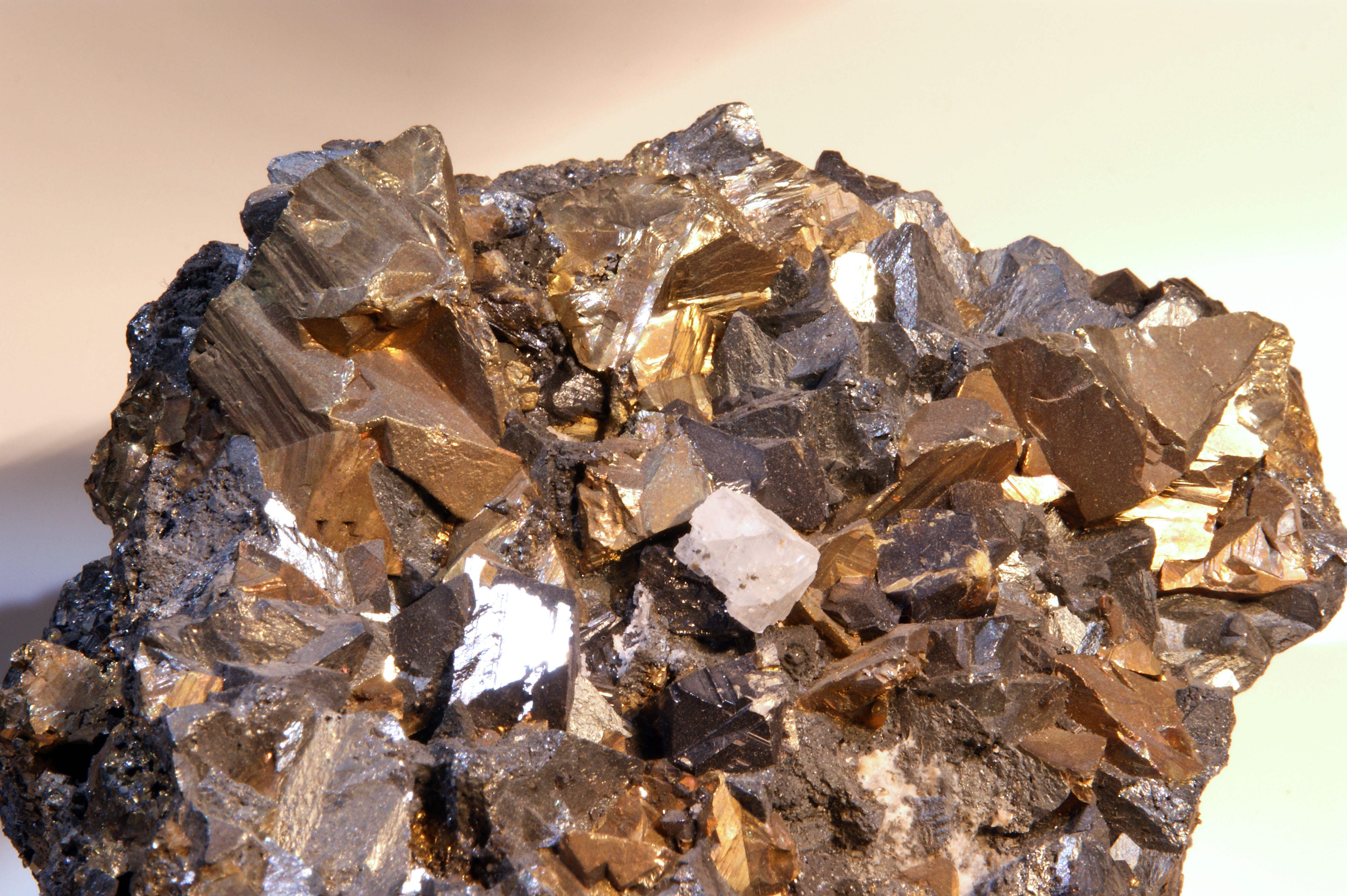 Chalcopyrite with Sphalerite and Fluorite Locality : Locality: Huaron Mining District, San Jose de Huayllay District, Cerro de Pasco, Daniel Alcides Carrión Province, Pasco Department, Peru. Size :11.5x11 cm